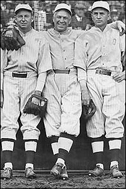 Duffy Lewis, Tris Speaker and Harry Hooper - old, pre-1923 photo, appears to have been taken between 1912 or 1914 season based on knowledge of uniforms from Baseball Hall of Fame Dressed To The Nines Uniform Database and that those were three years that all three players were part of the Red Sox organization - claiming public domain - enlarged and optimized image obtained from for an educational purpose and cultural and historical value